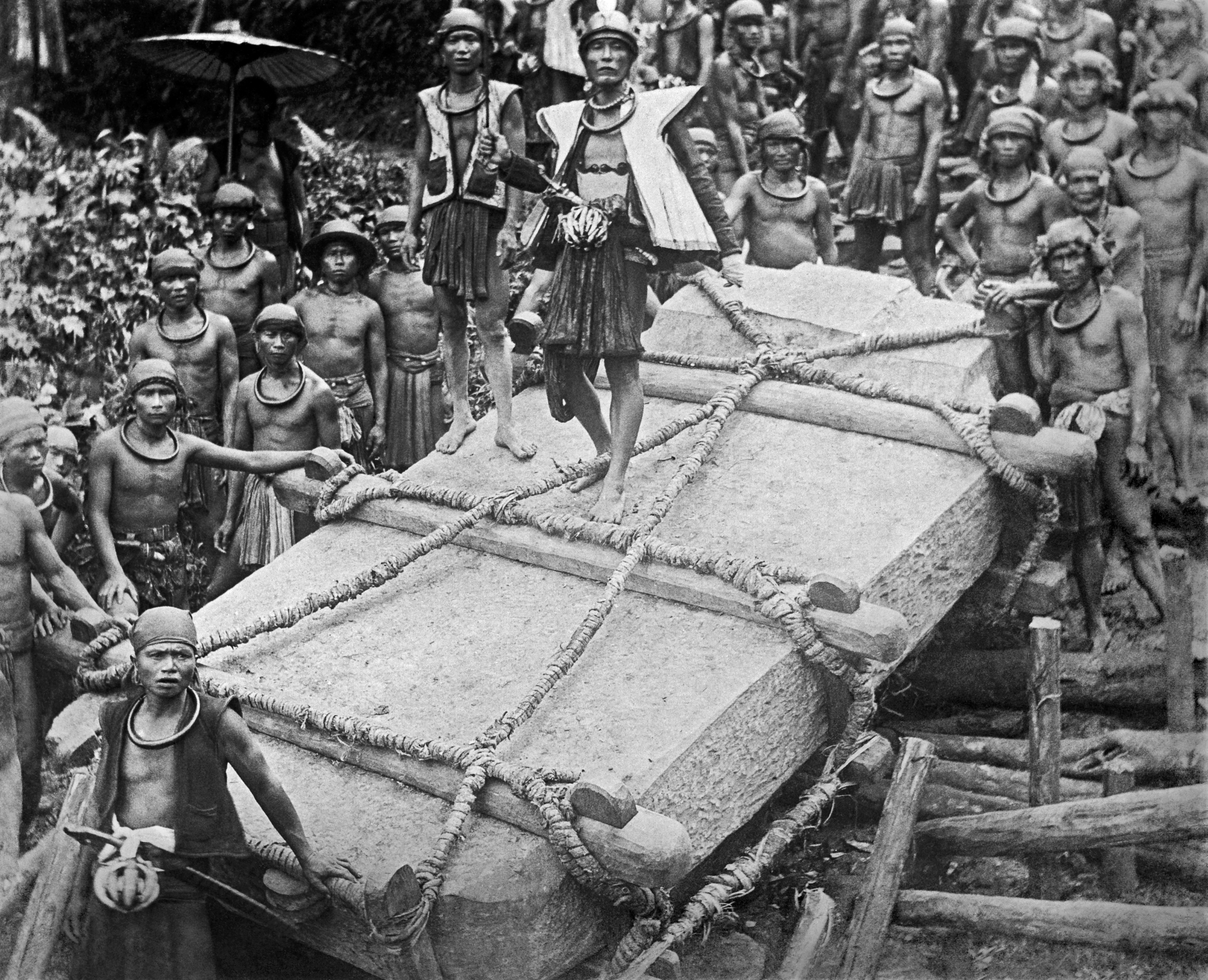 Repronegative. Big stones (megaliths), some nicely decorated, were a part of the culture of the island of Nias off the western coast of Sumatra, Indonesia. There were big stone statues, stone seats for the chieftains and stone tables where justice was done. There were also big stones needed to commemorate of important deceased people. When such a stone was erected, a ritual feast was to be given. All this to enable a nobleman to join his godly ancestors in the afterlife. On the photo such a stone is hauled upwards. The story has it that it took 525 people three days to erect this stone in the village of Bawemataloeo. (P. Boomgaard, 2001)